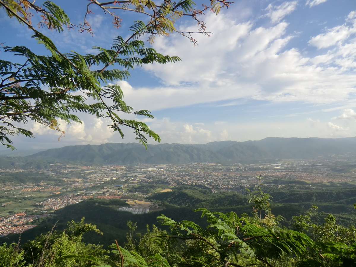 City of Guatire, state of Miranda - Venezuela. With the Venezuelan Coastal Range.